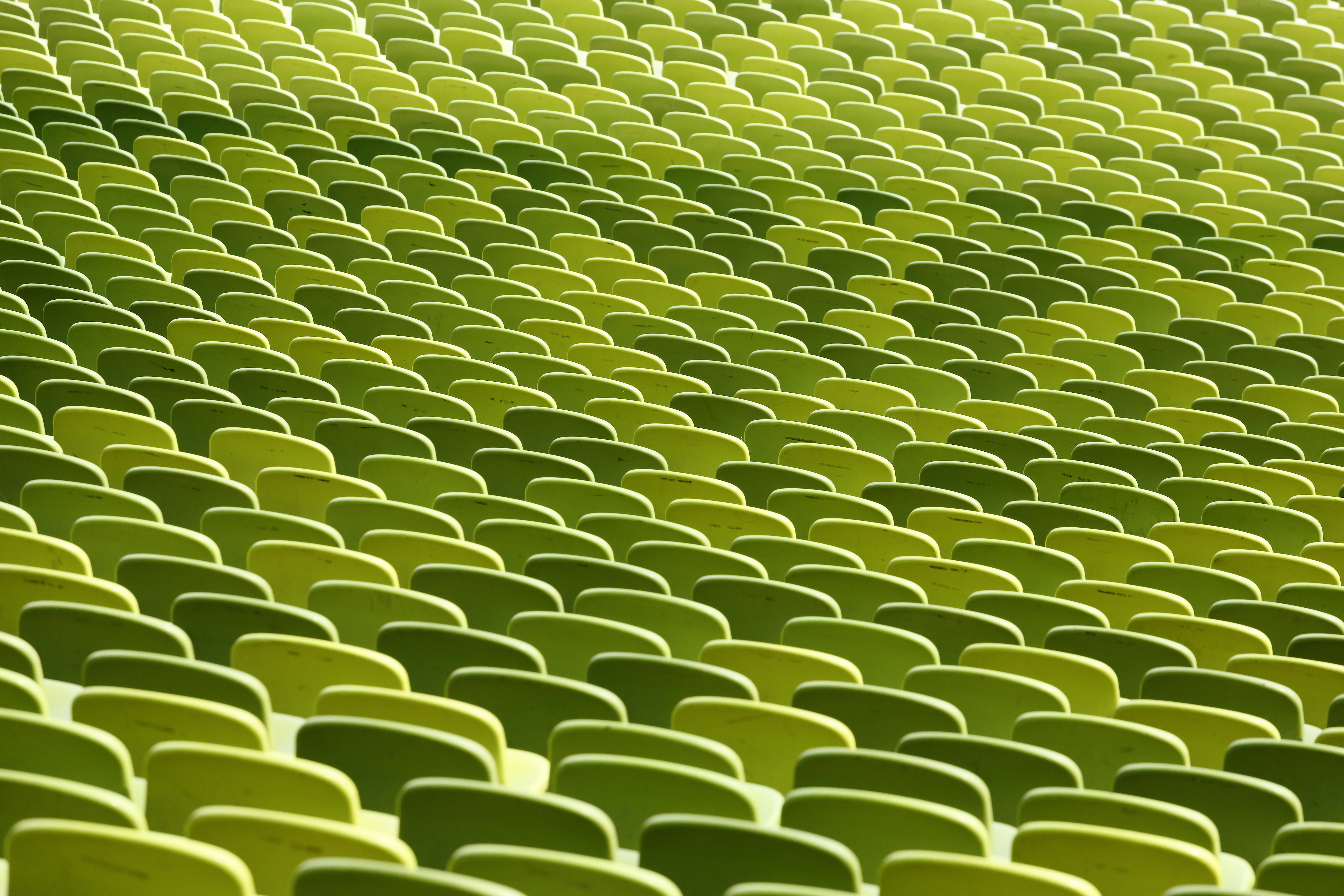 Rows of seats in Olympiastadion Munich